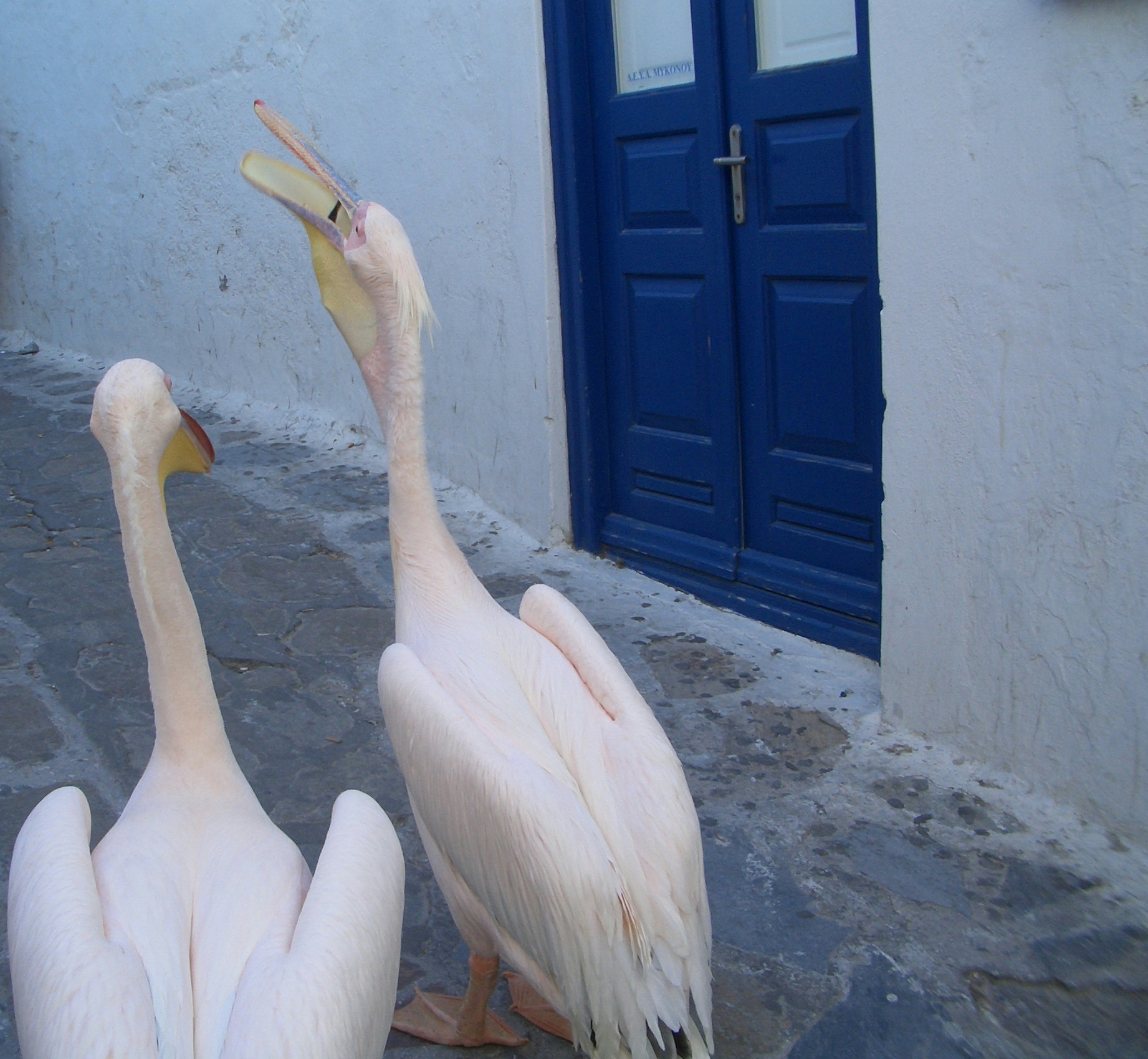 Swallowing such a big fish let me tell you is not that easy